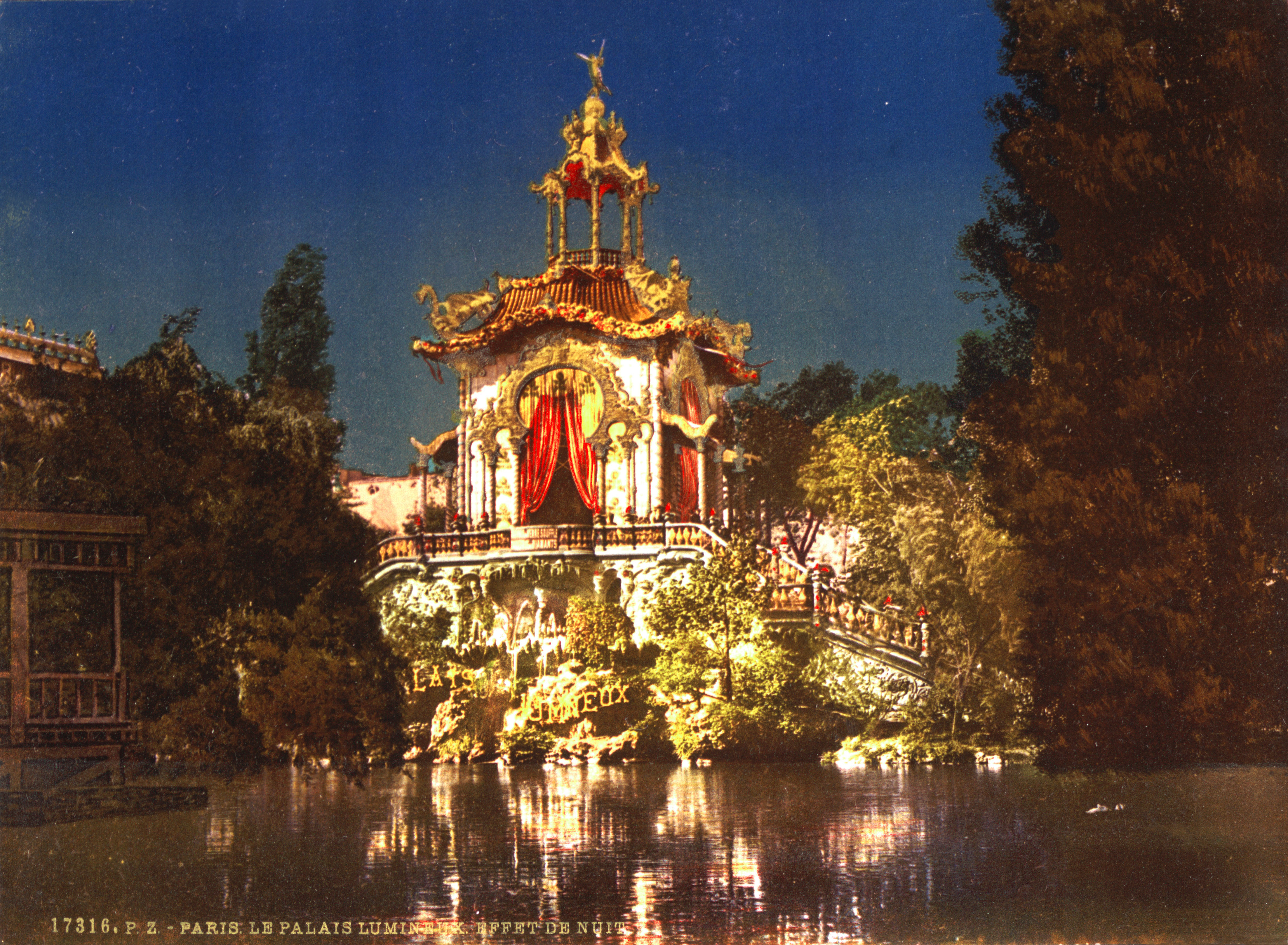 The Palace Lumineux at night, Exposition Universal, 1900, Paris, France